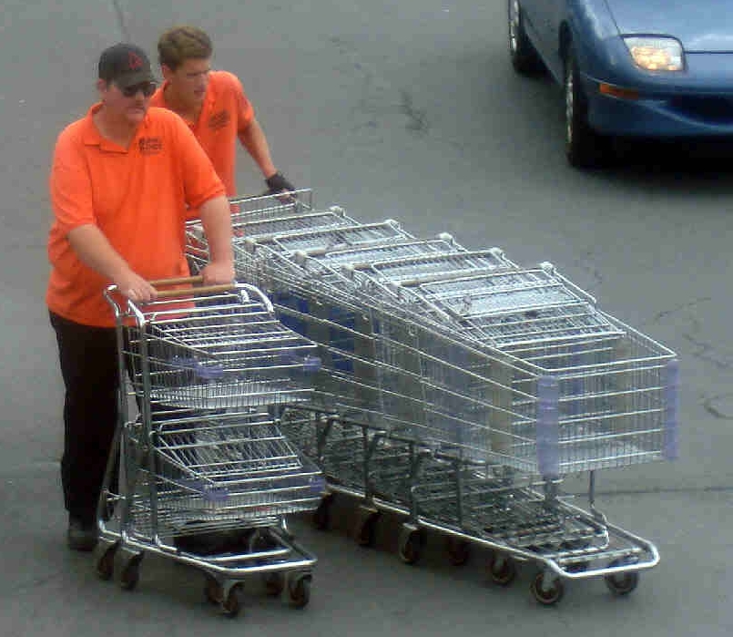 Supermarket employees clearing up shopping carts